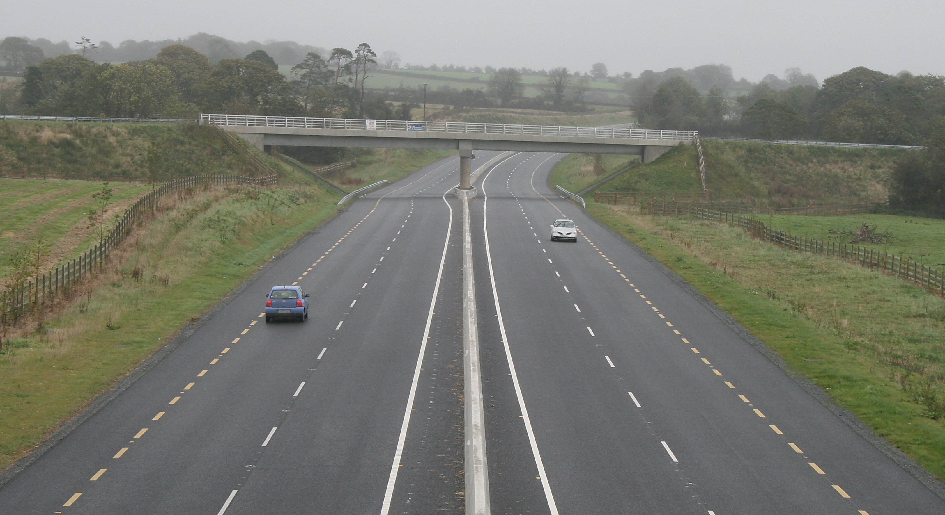 The N11 Gorey Bypass, County Wexford, Ireland. Note the "kink" in the mainline to get around the median bridge support and the sudden dip just past the bridge. This cheap construction technique results in what are called "dodge and dive" roadways.